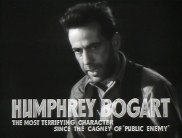 Cropped screenshot of Flitz Spark from the trailer for the film The Petrified Forest.